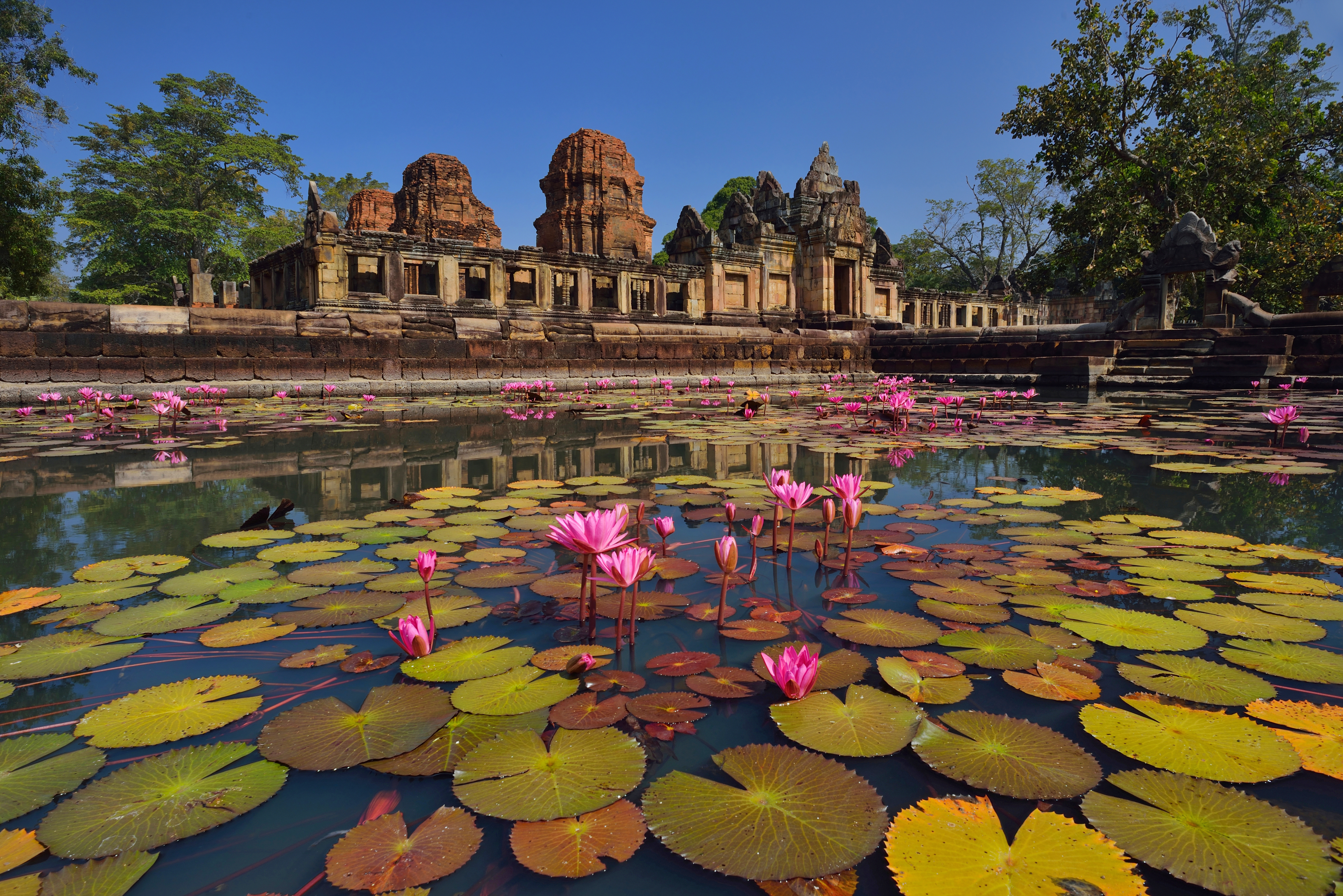 Muangtum Castle at Buriram, Thailand